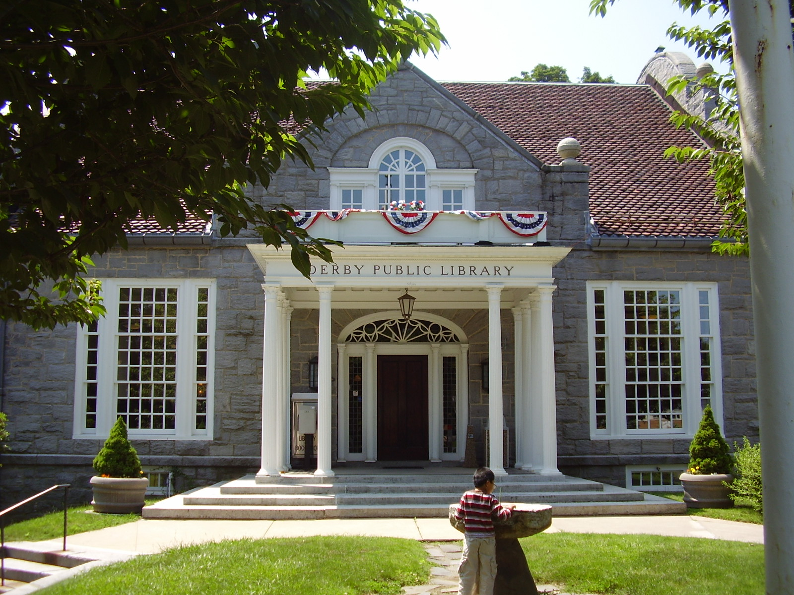 Derby (Conn.) Public Library, aka Harcourt Wood Memorial Library